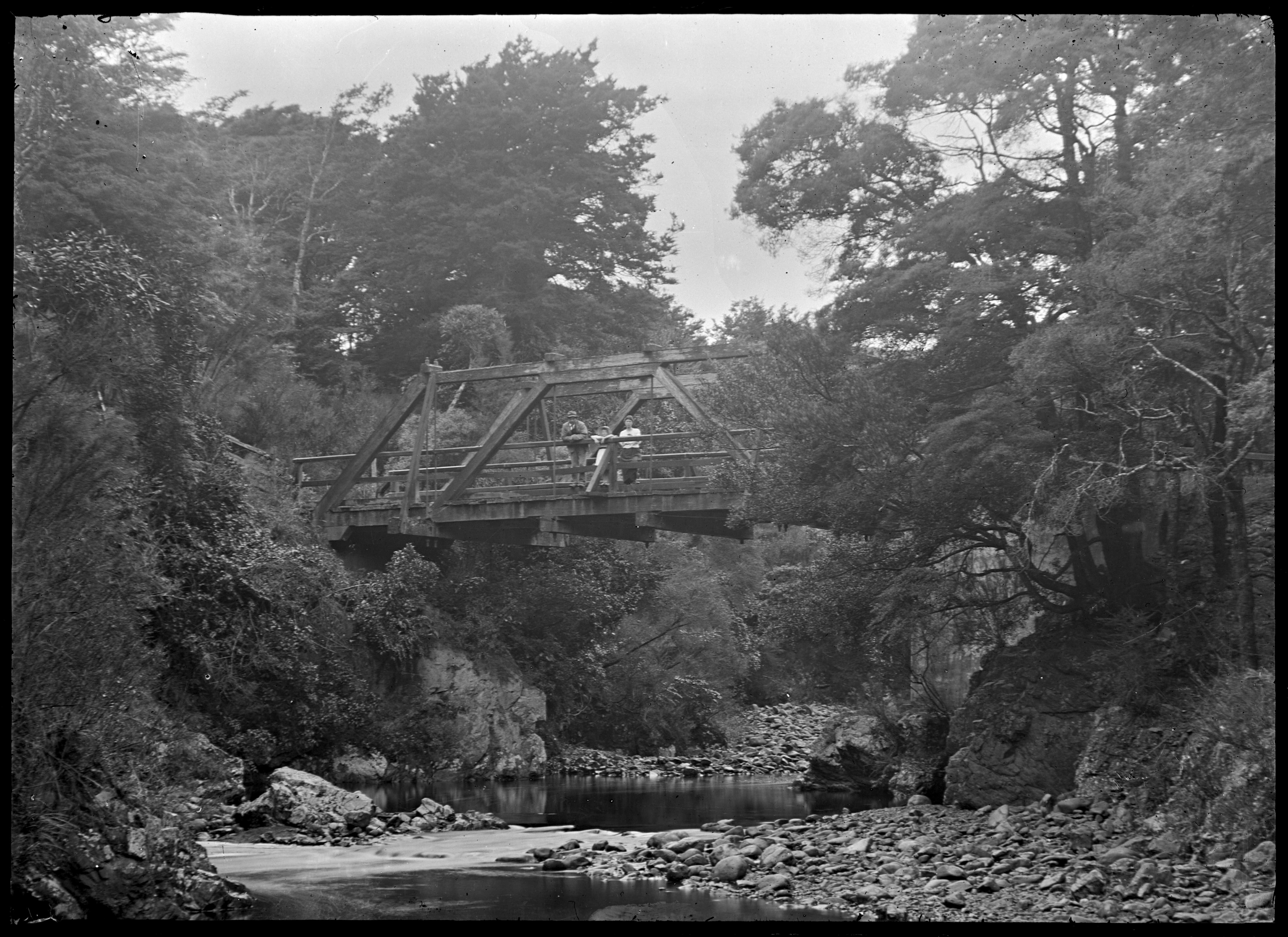 Traffic bridge over the Mangaroa River, Upper Hutt, photographed by Albert Percy Godber.